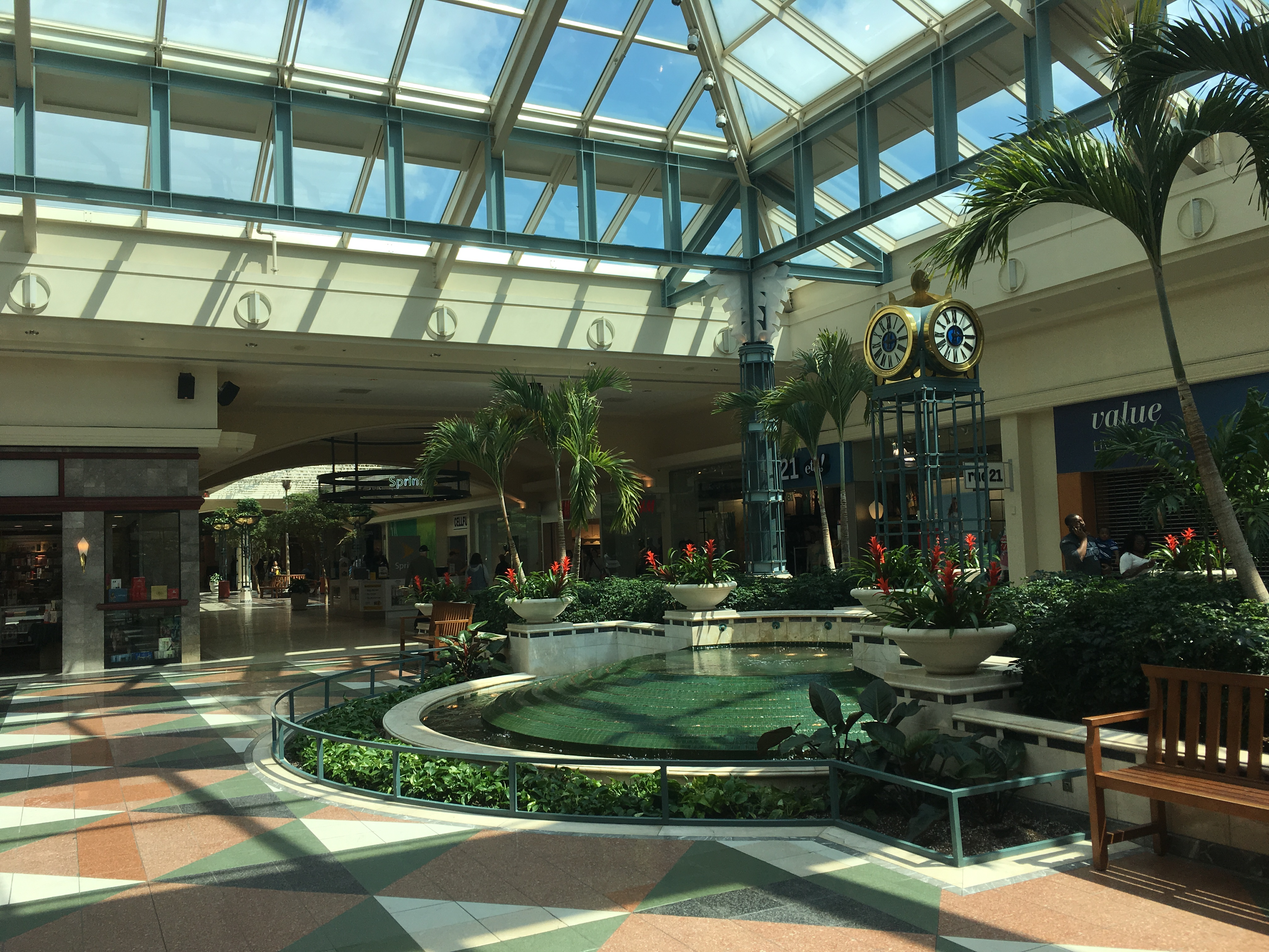 Fountain near Macy's at the Concord Mall in Wilmington, Delaware